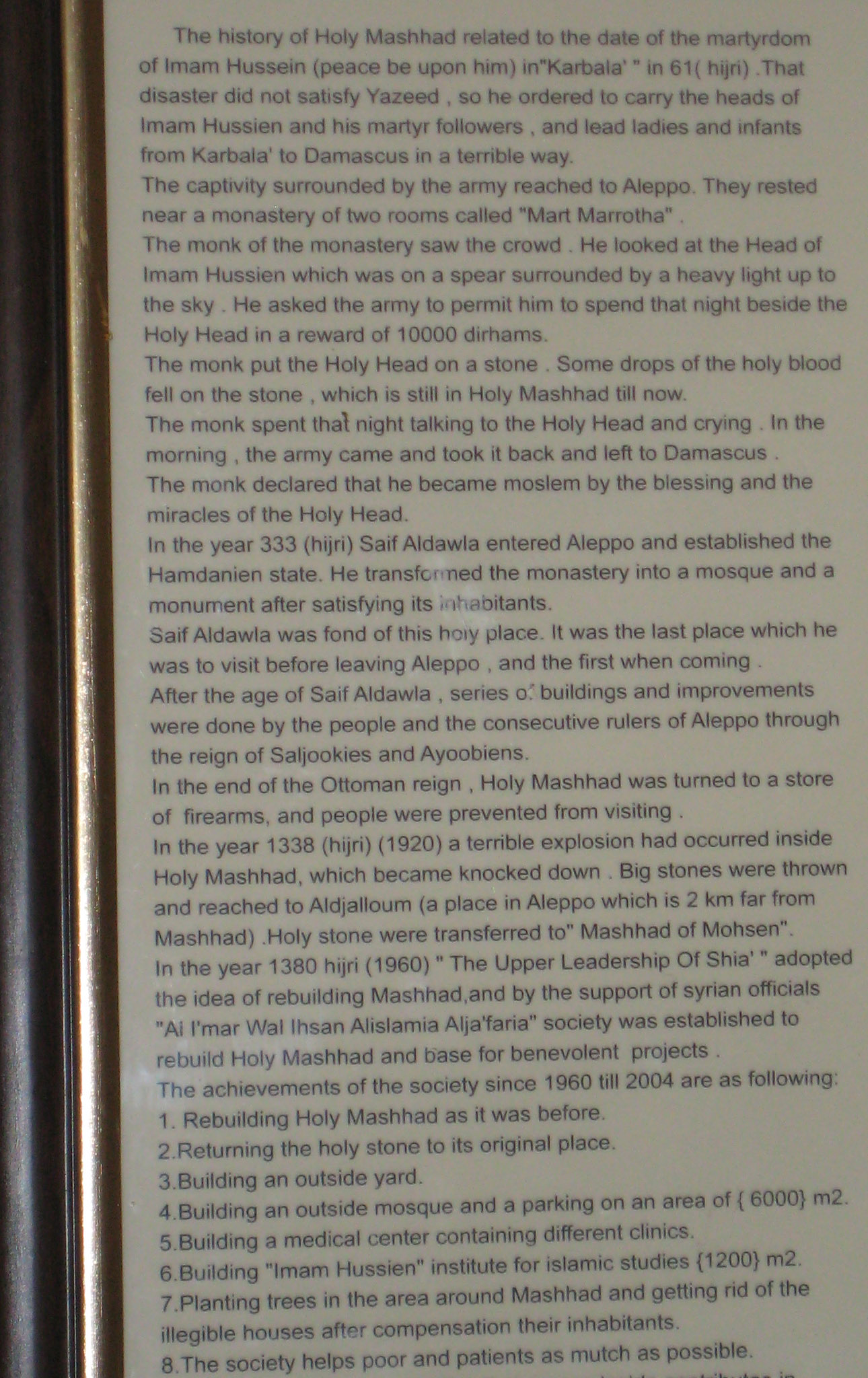 Plaque found within Masjid al-Nuqtah outlining its history - Aleppo, Syria